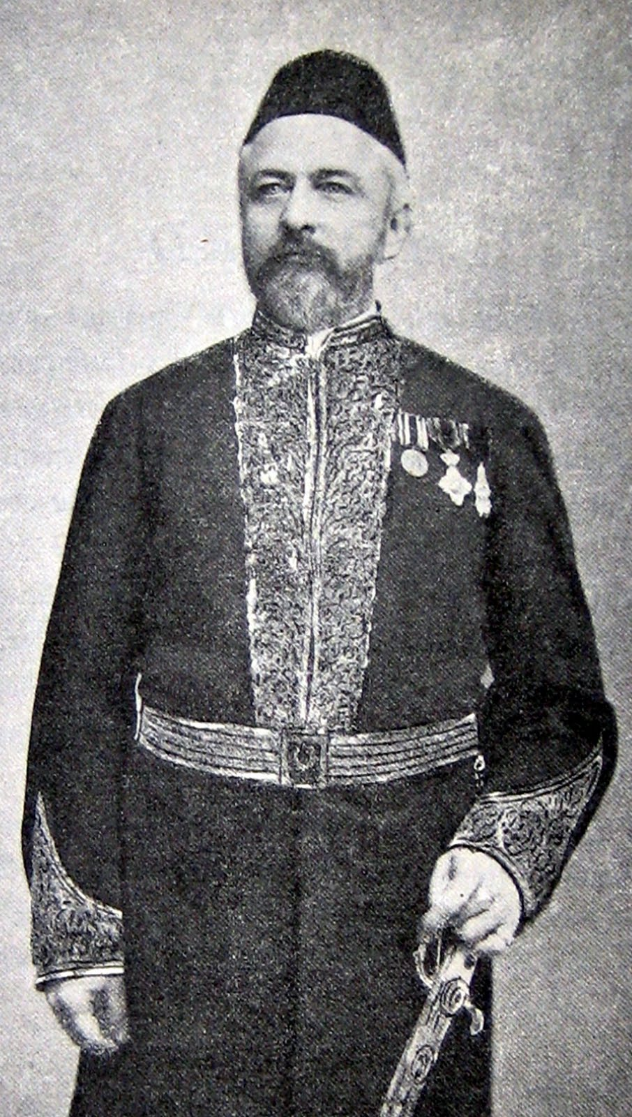 Harald Valdemar Mansfeld-Büllner (1842-1900), Danish industrialist, numismatist, and Turkish consul